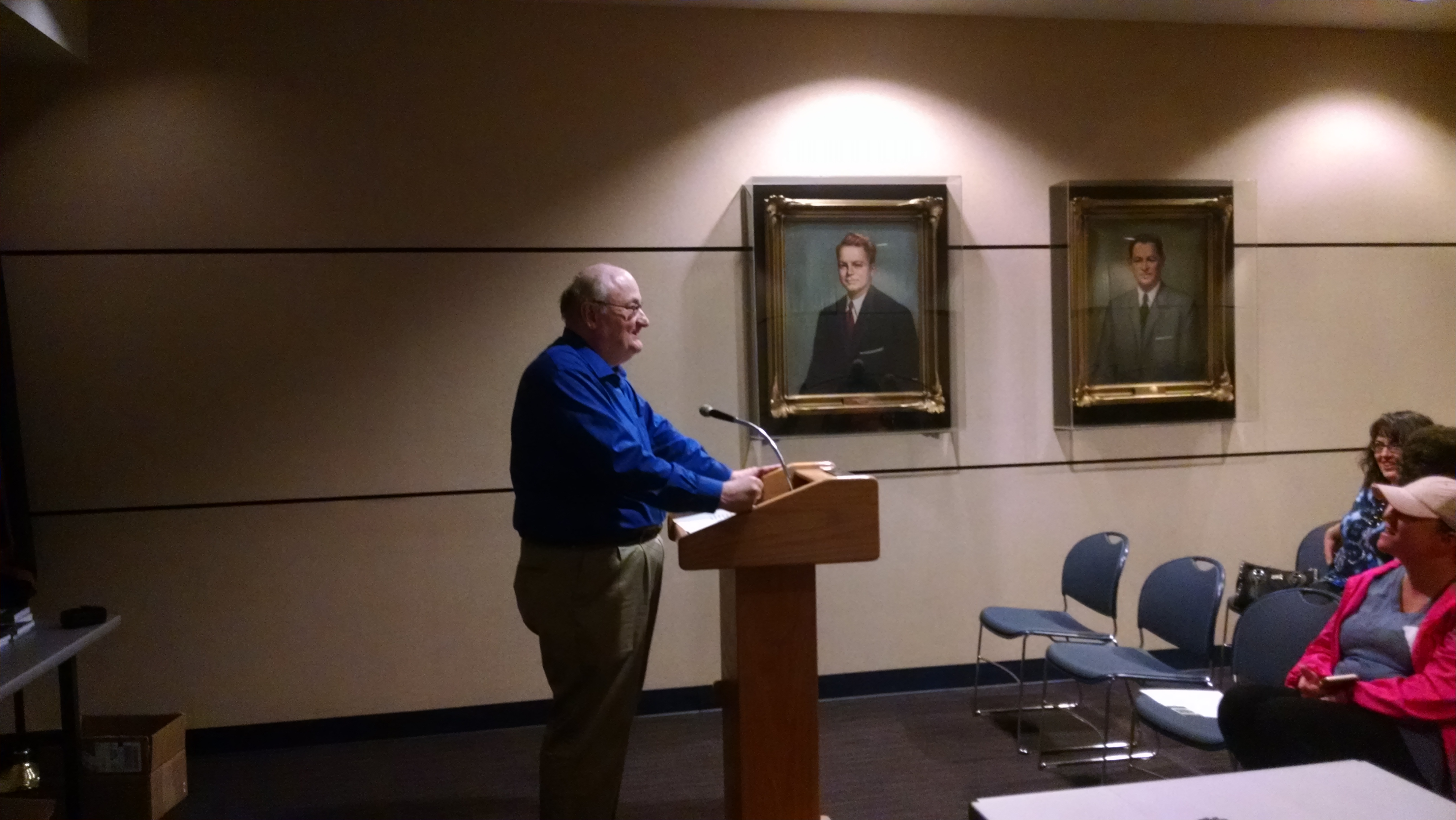 Prof. Steven G. Farrell giving a lecture on the Irish-American in Film at a Greenville library.